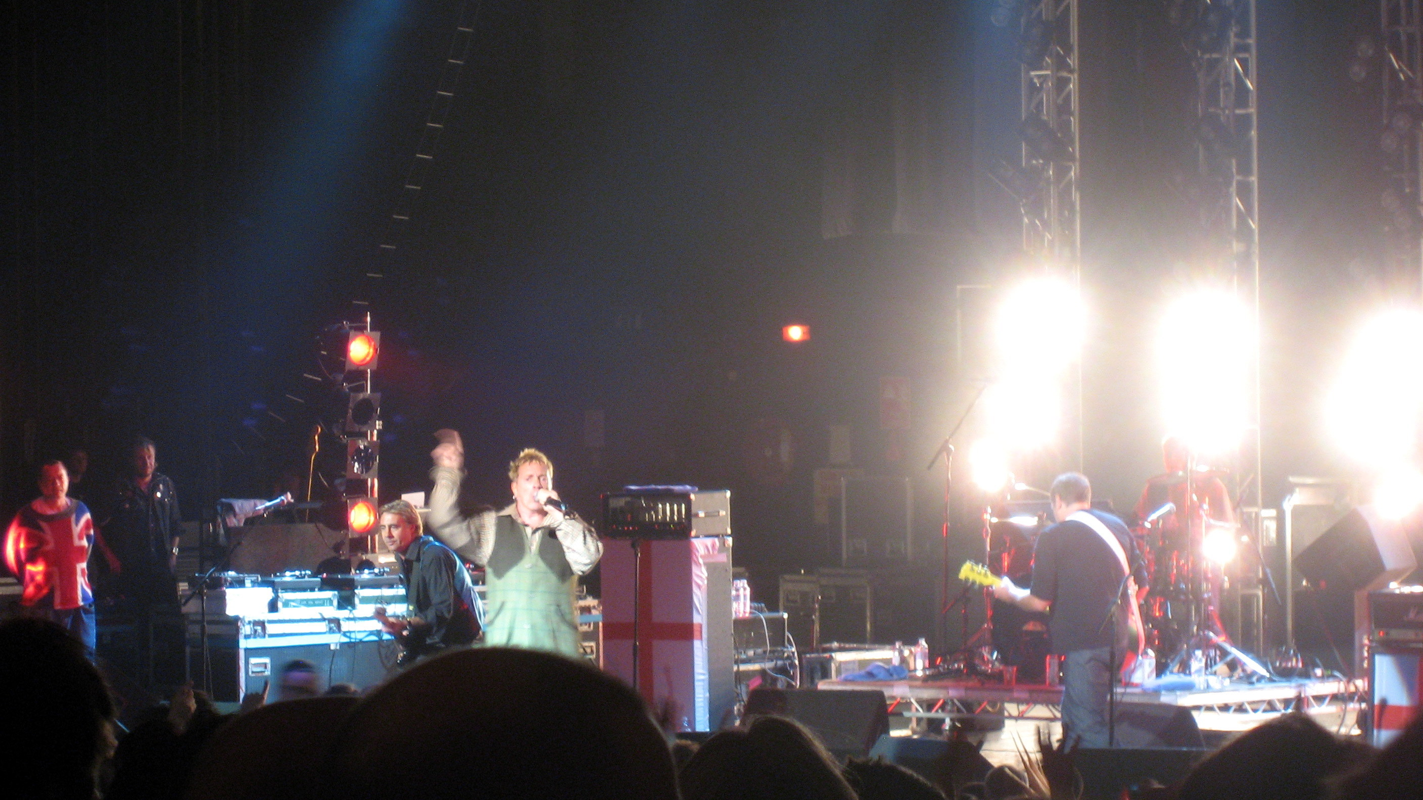 The Sex Pistols performing at Brixton Academy in Stockwell, London, on November 3, 2007.